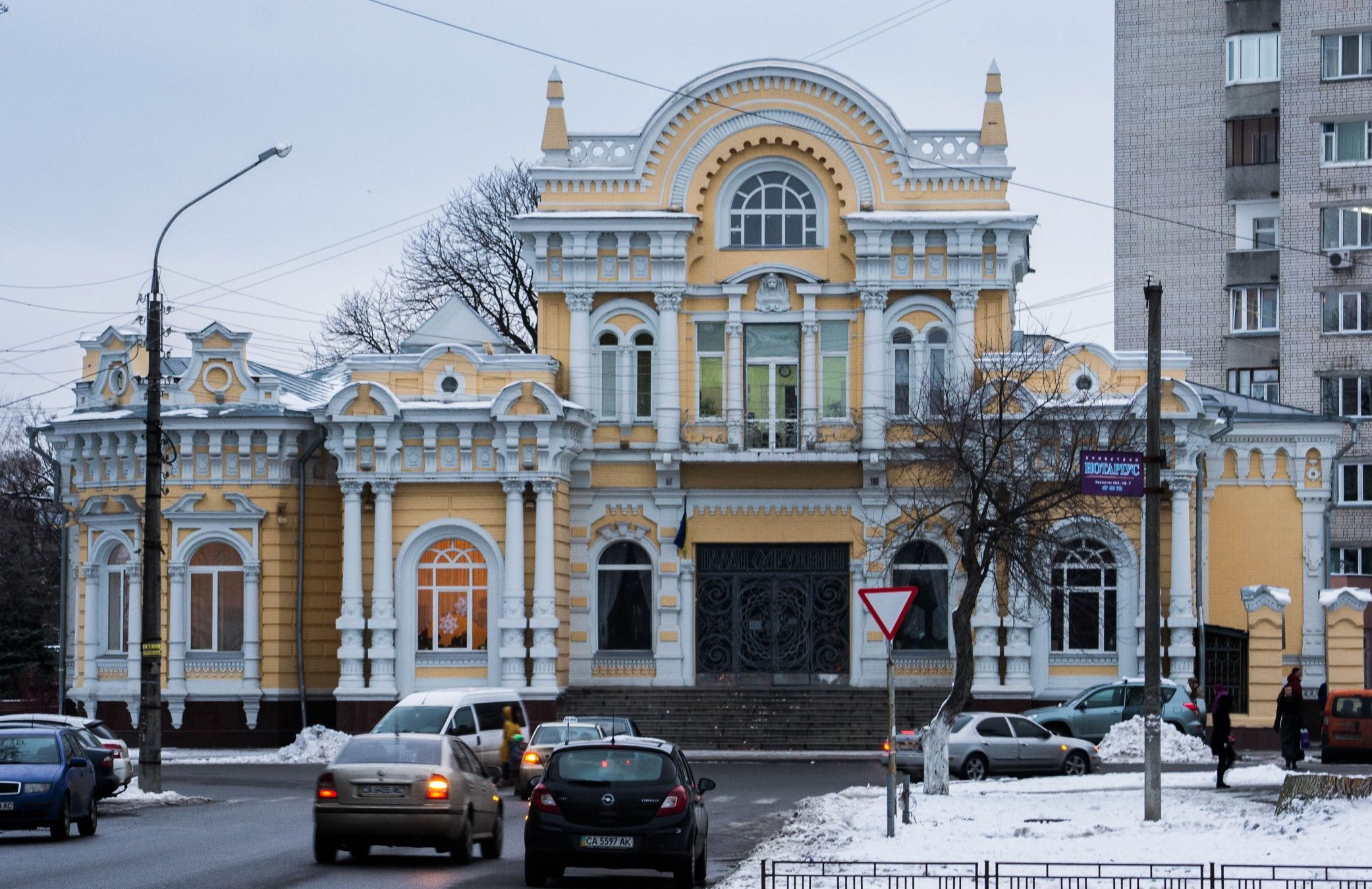 Wedding Palace in Cherkasy